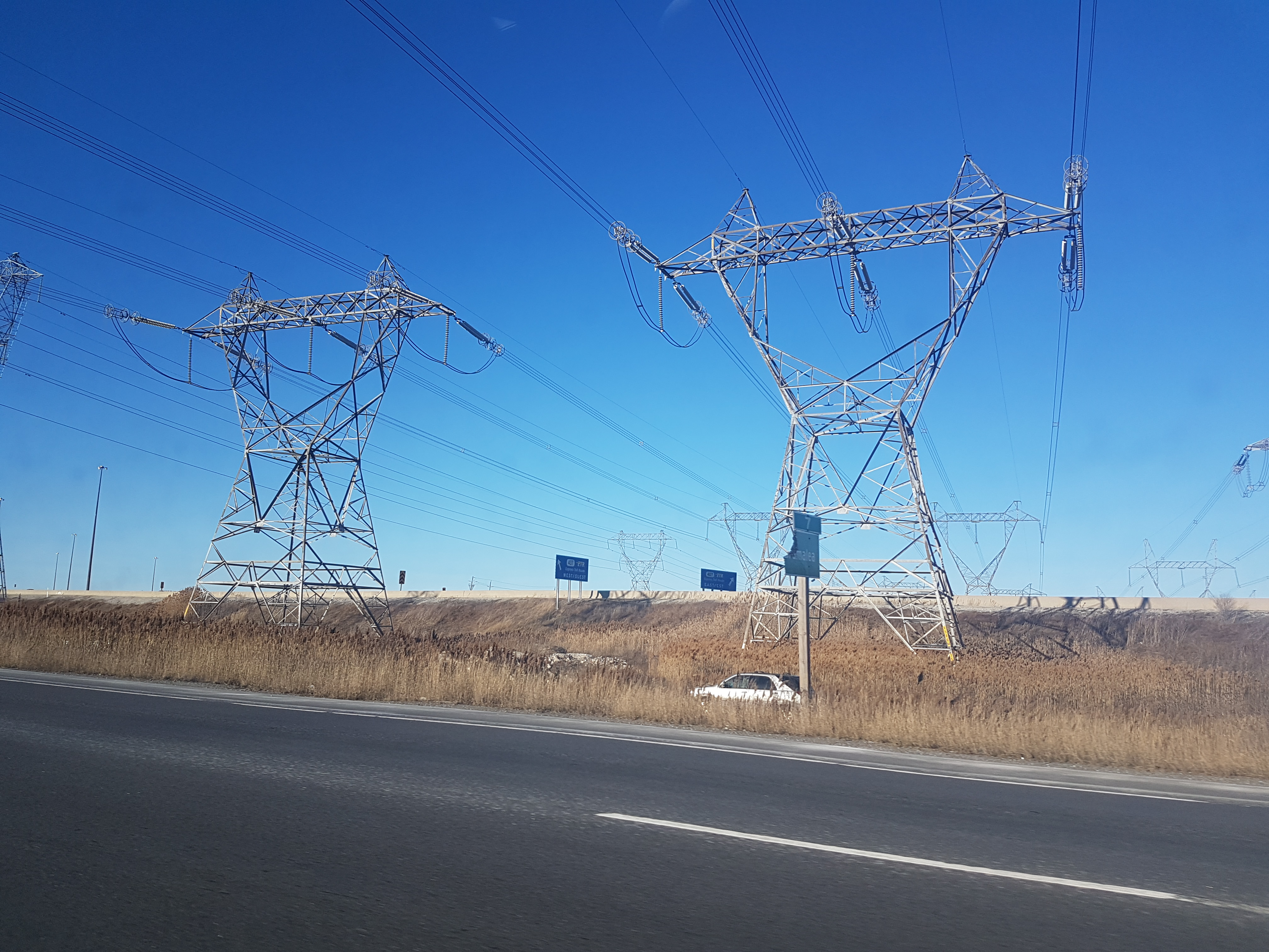 Low-profile 500 kV A/C single-circuit anchor towers, near Toronto, ON at Highway 410.